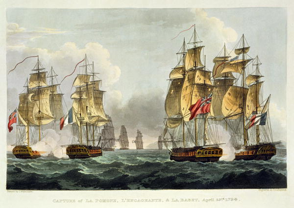 Capture of Pomone, Engageante and Babet